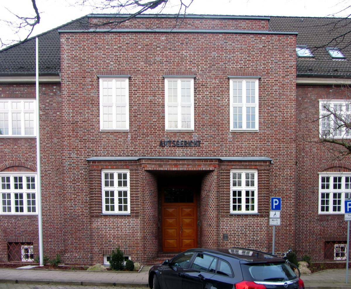 Local Court ("Amtsgericht") of Blankenese, Hamburg, Germany